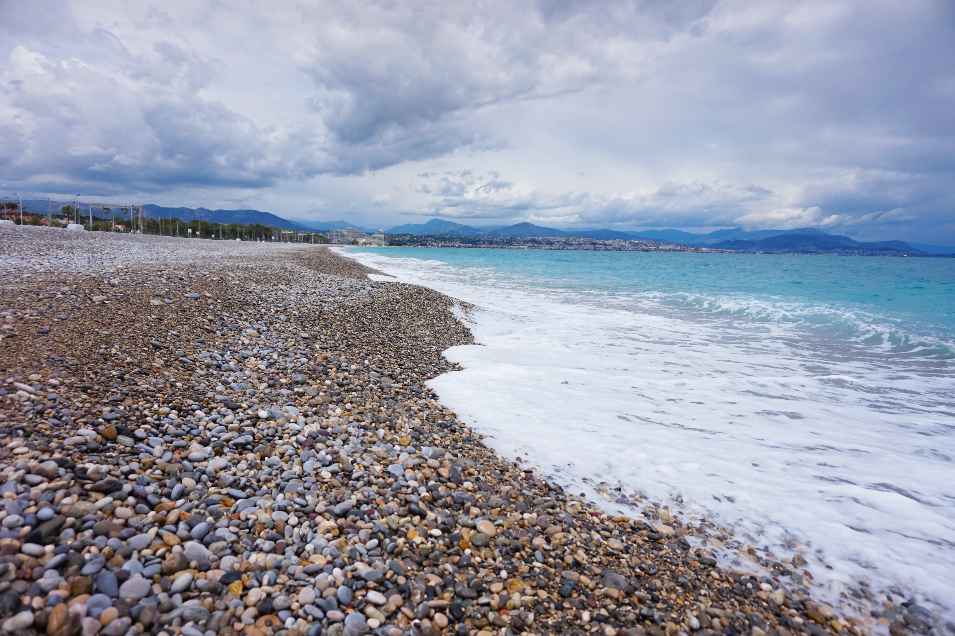 Beach in Antibes, France rivieraThis photograph was taken with a Sony ILCE-5000